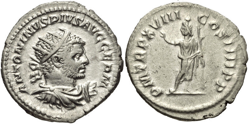 Caracalla. AD 198-217. AR Antoninianus (23mm, 5.47 g, 6h). Rome mint. Struck AD 215. ANTONINVS PIVS AVG GERM Radiate and draped bust right P M TR P XVIII COS IIII P P Serapis standing facing, head left, holding scepter and raising hand. RIC IV 263e; RSC 295a. EF.